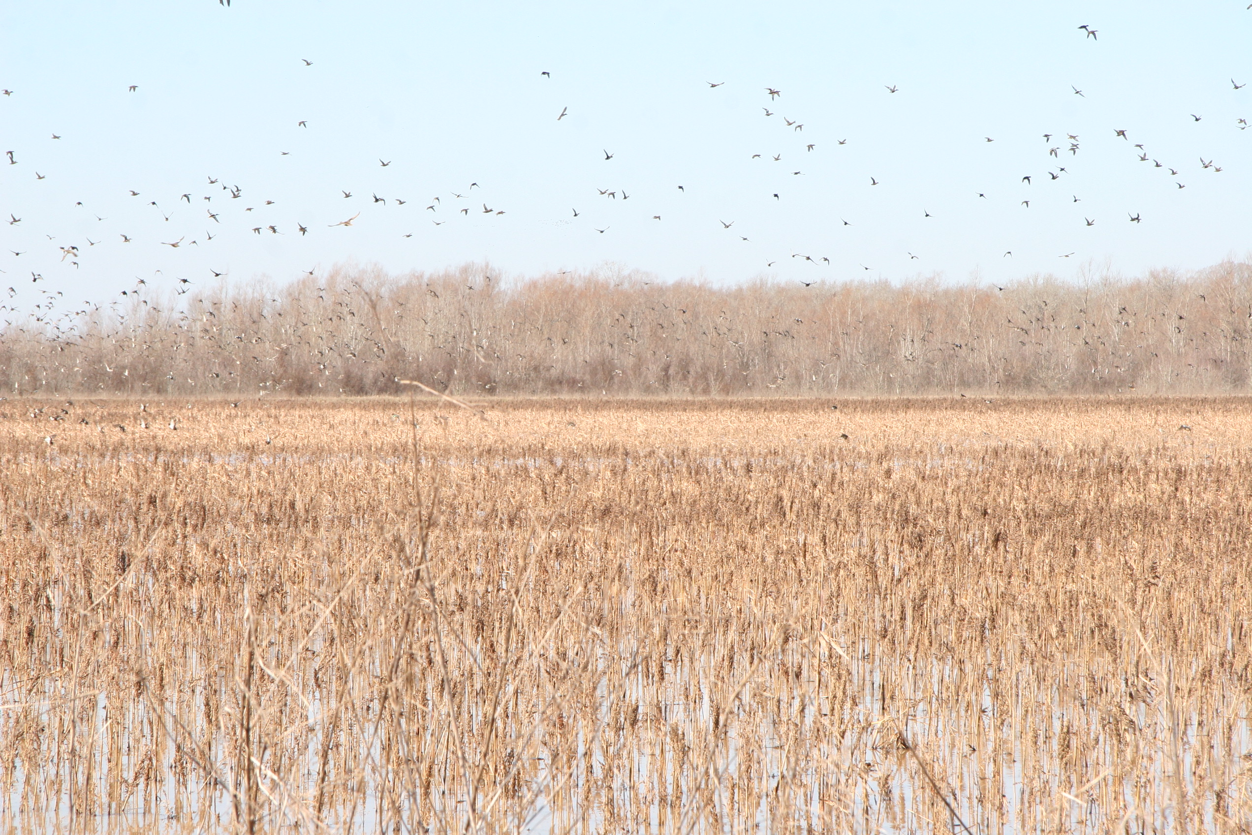 Ducks and geese fly above wetlands at Grand Cote National Wildlife Refuge in Louisiana. The refuge is an important rest stop for many of the migrating birds that make their way from Alaska to the Gulf of Mexico and back along the Mississippi Flyway. The Conservation Fund is helping the U.S. Fish and Wildlife Service restore the historical bottomland hardwood forests that help feed and shelter the shorebirds, blackbirds, warblers and others. To learn more about the carbon mitigation techniques being used at Grand Cote and Lake Ophelia, read our blog post, "Louisiana: Re-planting Forests, Reducing CO2 and Saving Wildlife" - Credit: Stacy Shelton, USFWS.